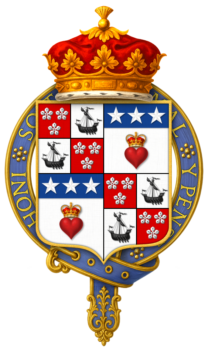 Coat of arms of William Douglas-Hamilton, 3rd Duke of Hamilton, KG